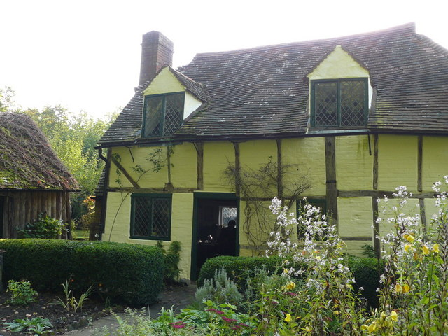 Oakhurst Cottage, Hambledon Lovely ancient cottage owned by the National Trust. Visits by advanced booking only.